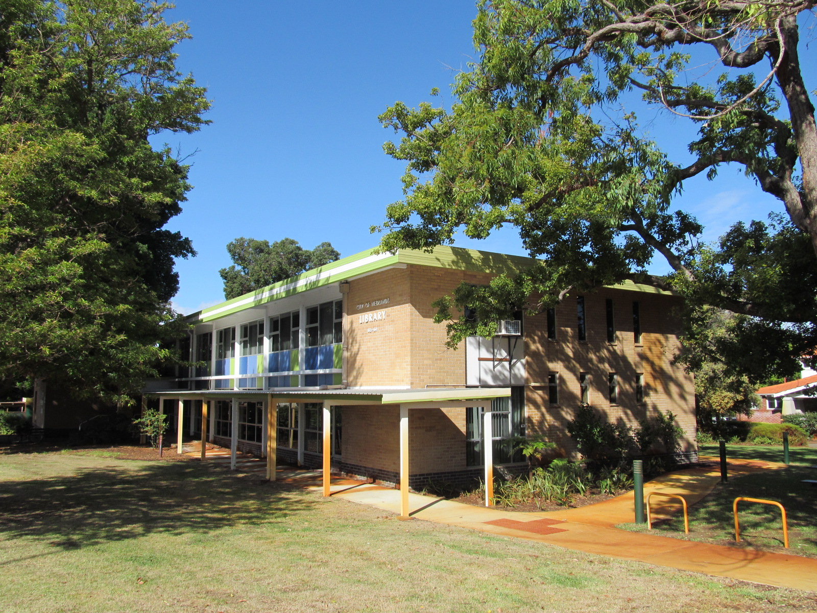 Side of the Nedlands Library, Nedlands, Perth, Western Australia.